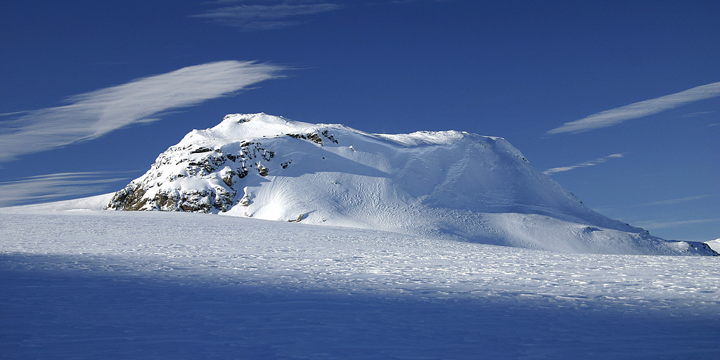 Bukkeskinnshjellane at Hardangerjøkulen. Hardangerjøkulen is the sixth largest glacier in mainland Norway, and is located in Eidfjord and Ulvik municipalities. Hardangerjøkulen's highest point is 1,863 m above sea level.